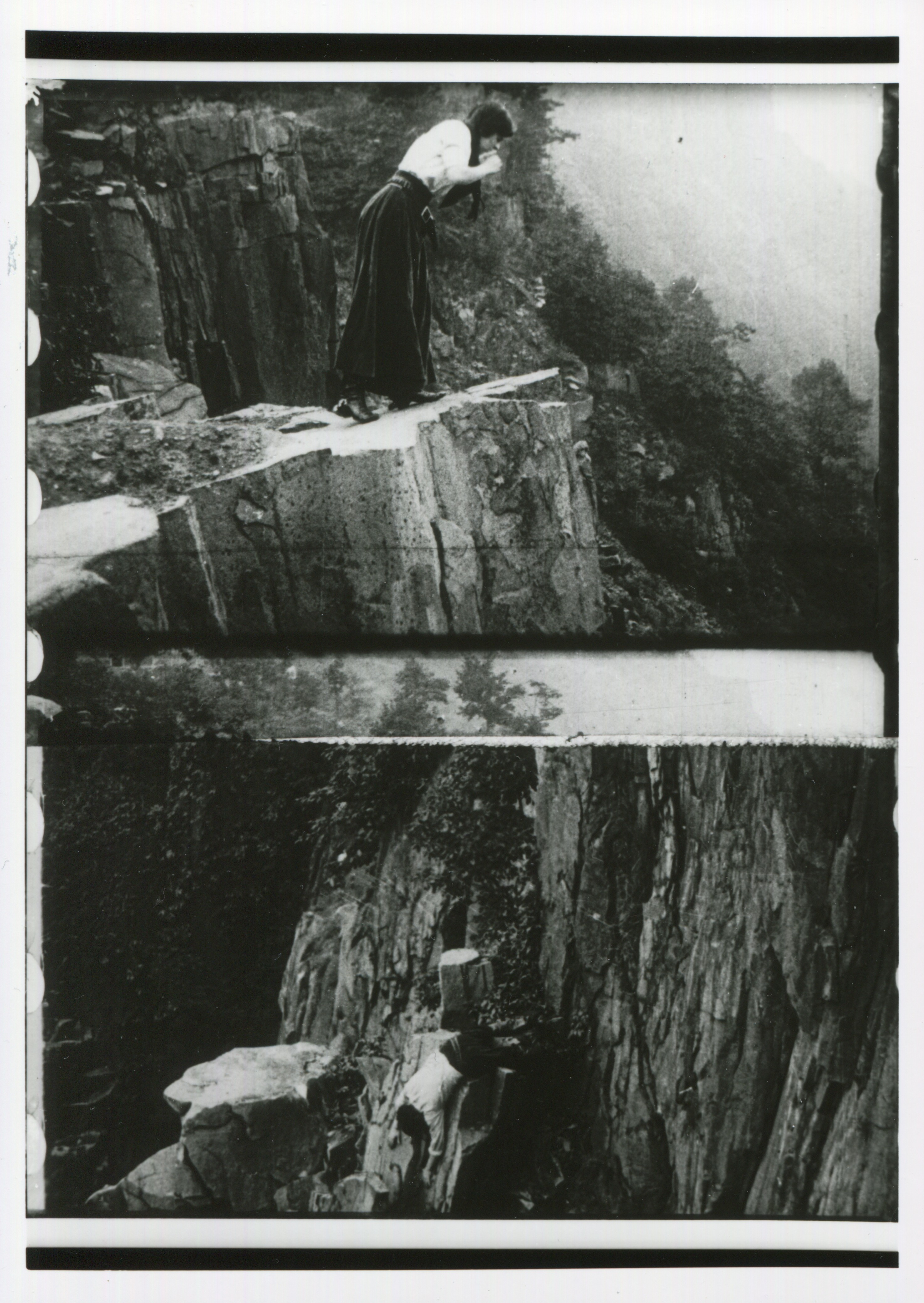 Film still